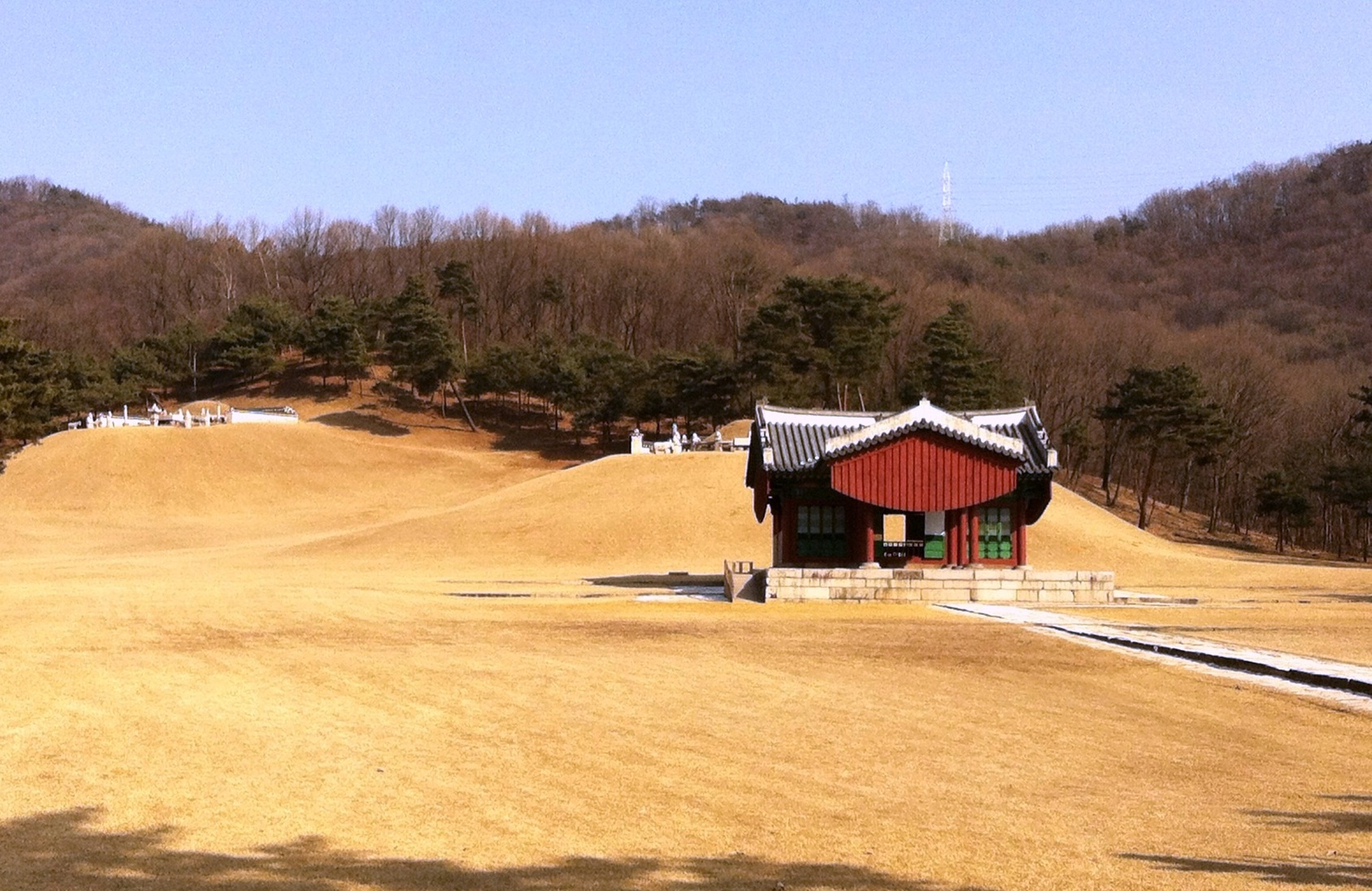 Myeongneung, tombs of King Sukjong, his two consorts Queen Inhyeon and Queen Inwon.